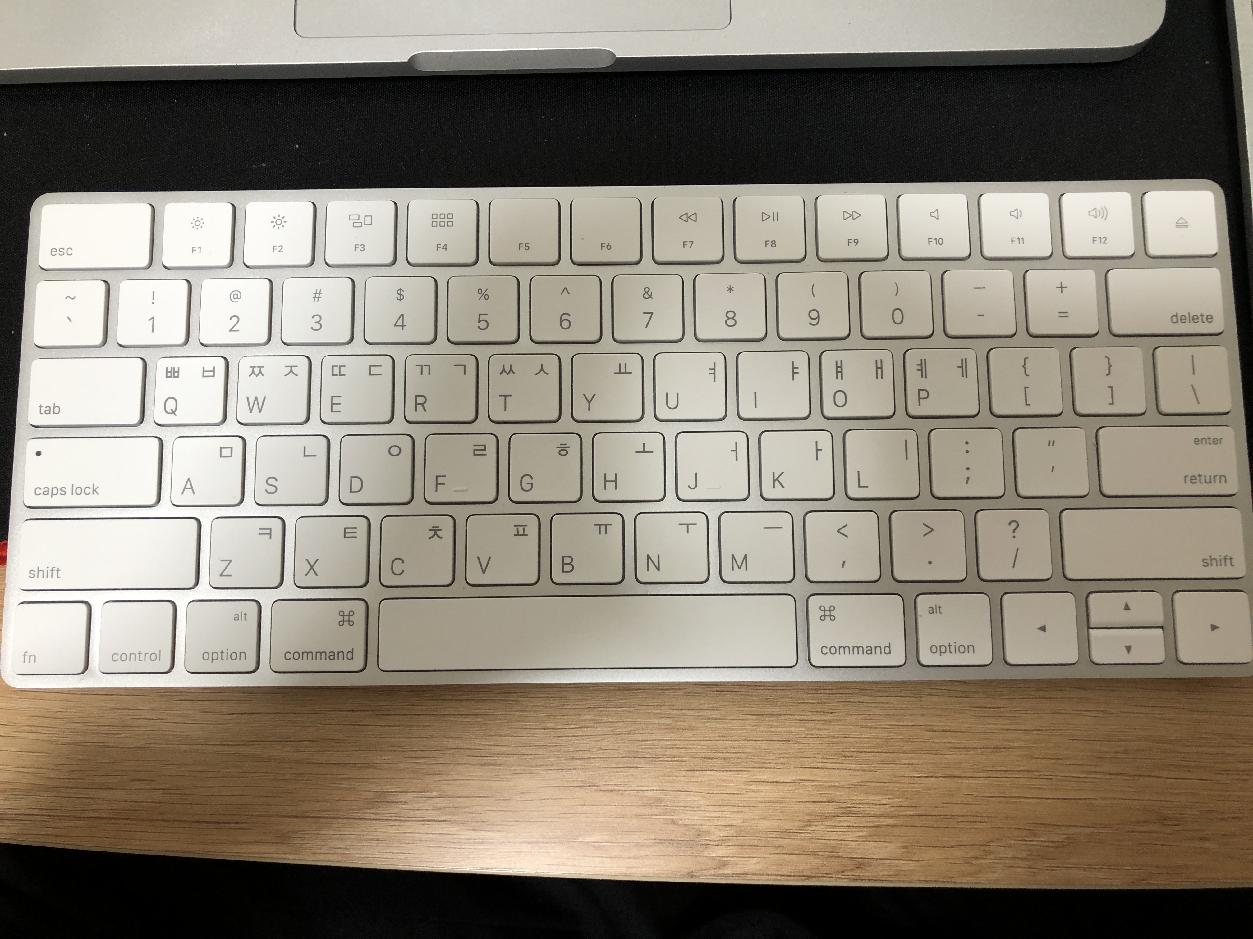 Apple Magic Keyboard, Korean.